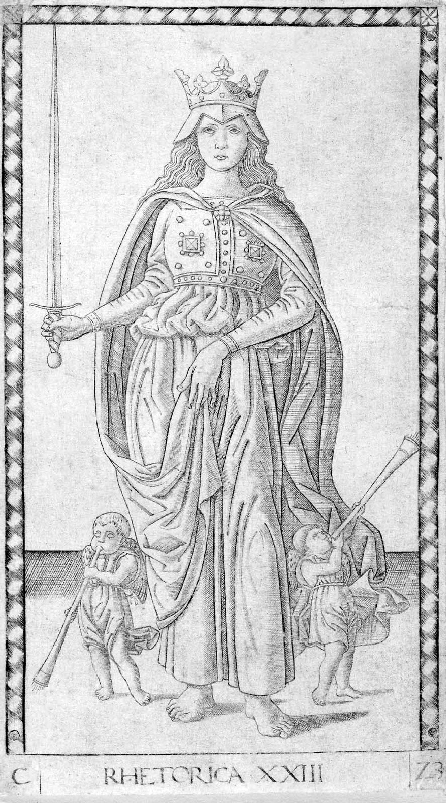 Card no. 23 from the E-series of the so-called Mantegna Tarocchi (or Mantegna tarot, Tarocchi del Mantegna etc.), entitled Rhetorica (rhetoric), showing a personification of eloquence. Copperplate engraving, Height: 18.2 cm (7.1″); Width: 10.2 cm (4″) dimensions QS:P2048,18.2U174728;P2049,10.2U174728.